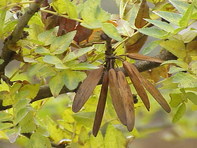 Species: Fraxinus xanthoxyloides dumosa Family: Oleaceae Image No. 2